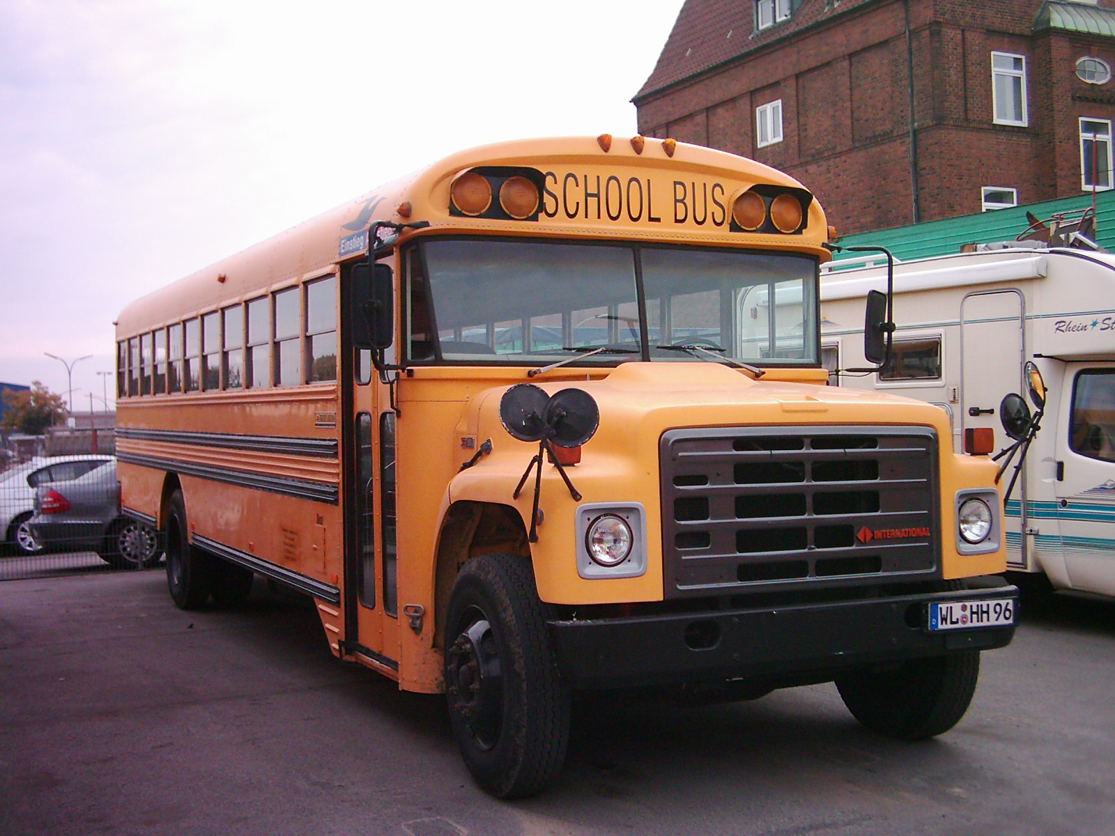 Ex schoolbus, today used for sightseeing in Hamburg, Germany.